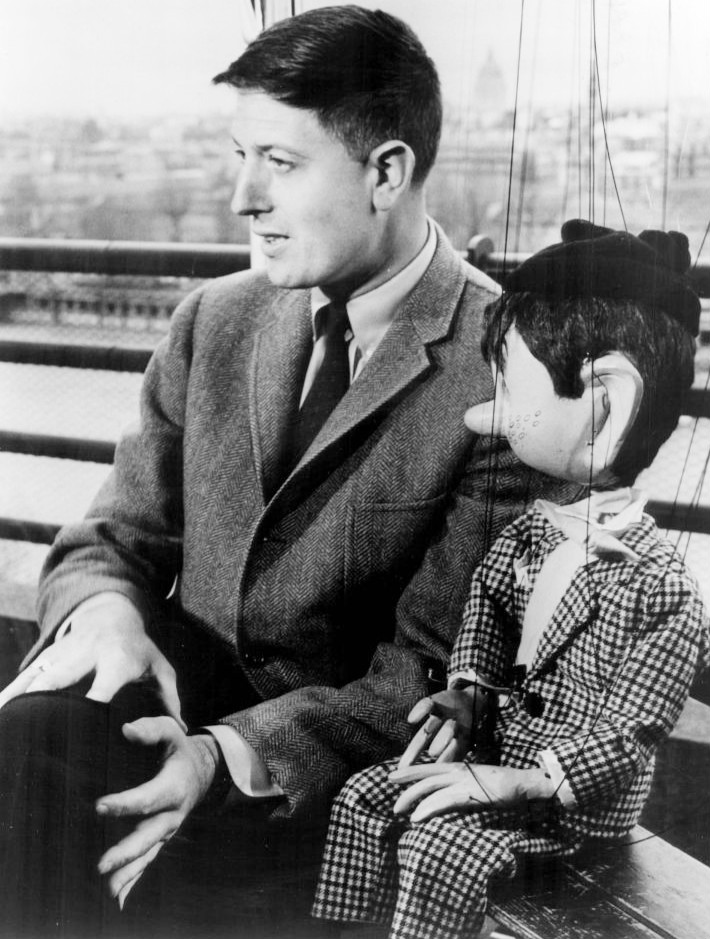 Photo of Frank Buxton from the television program Discovery.